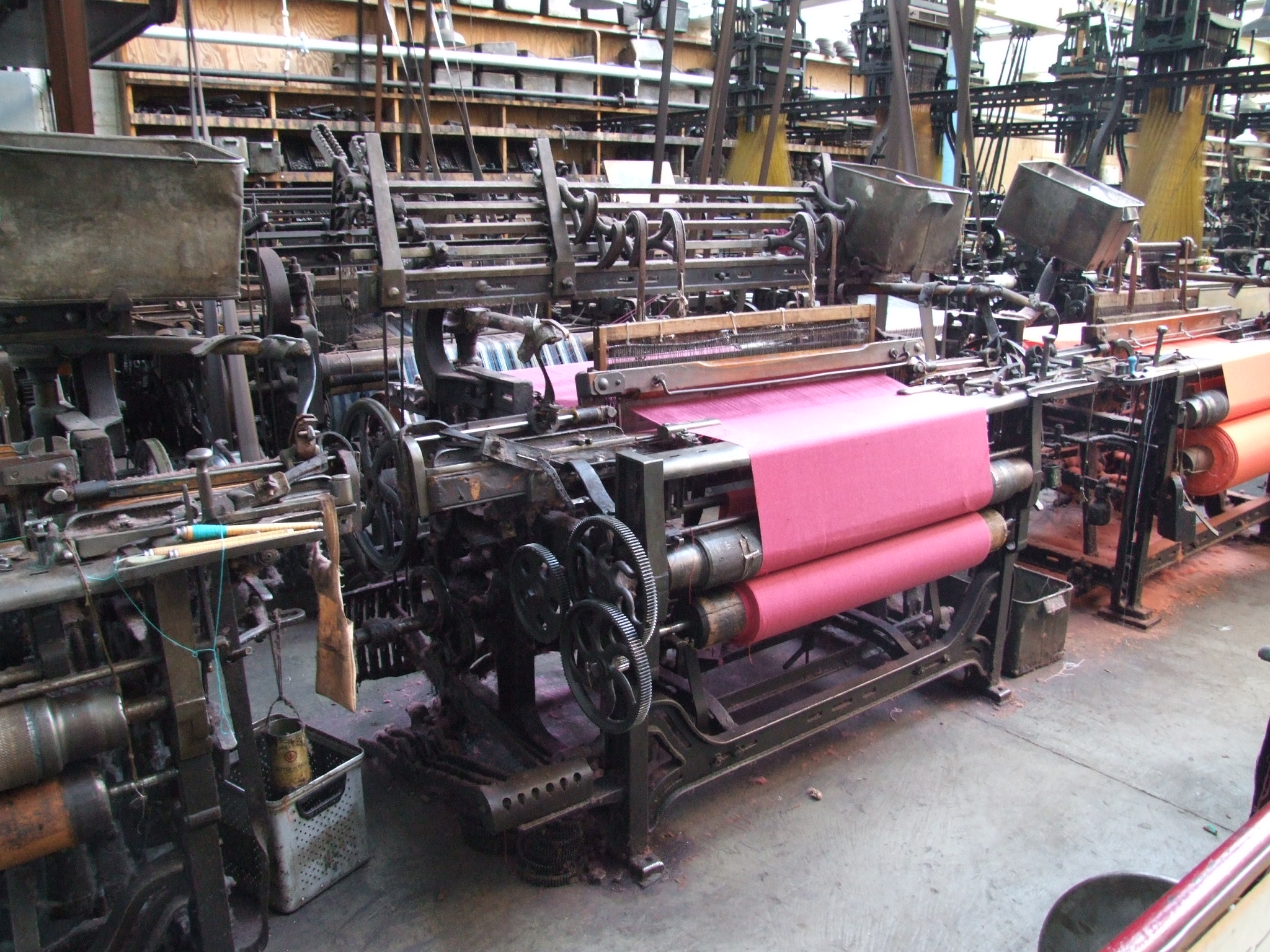 Masson Mills built in 1783 is home to a working textile mills. There is a small weaving shed with working looms some dating back to before 1867. Power Loom referred to here as a Yorkshire Loom with a Harling & Todd, Lancashire Loom behind. The Yorkshire has a longer reedspace than the Lancashire Loom so can weave wider fabric.